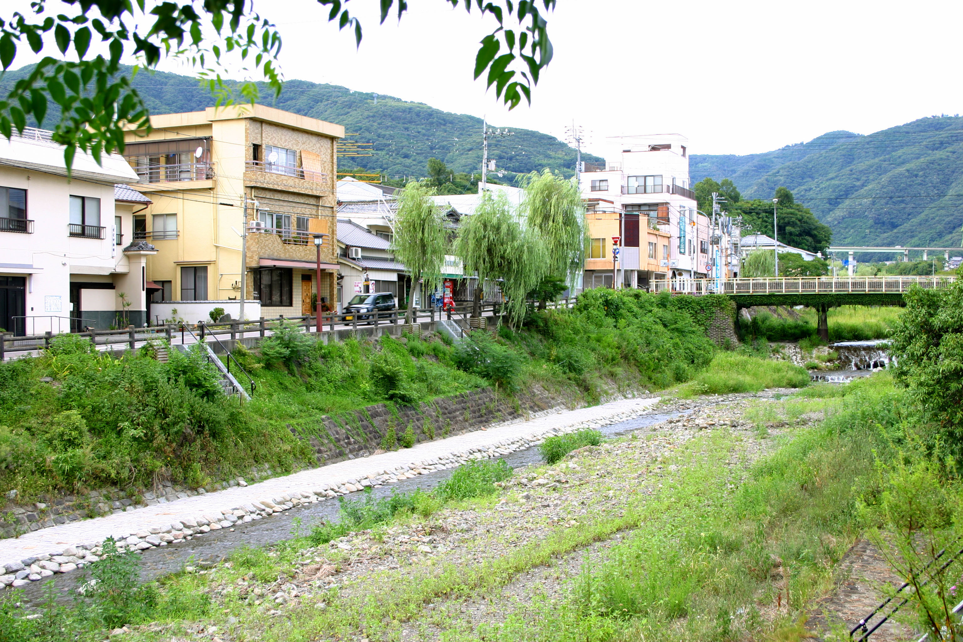 The Ōtani river in Mima-shi, Tokushima-ken